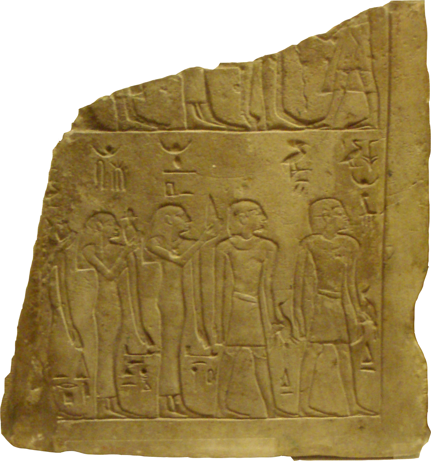 Fragmentary stela which contains the names of three people along with that of the pharaoh Ahmose I. The manner in which the crescent moon in his name is stylized dates it to before his 22nd regnal year. On display at the Metropolitan Museum of Art. Background removed using PhotoShop.